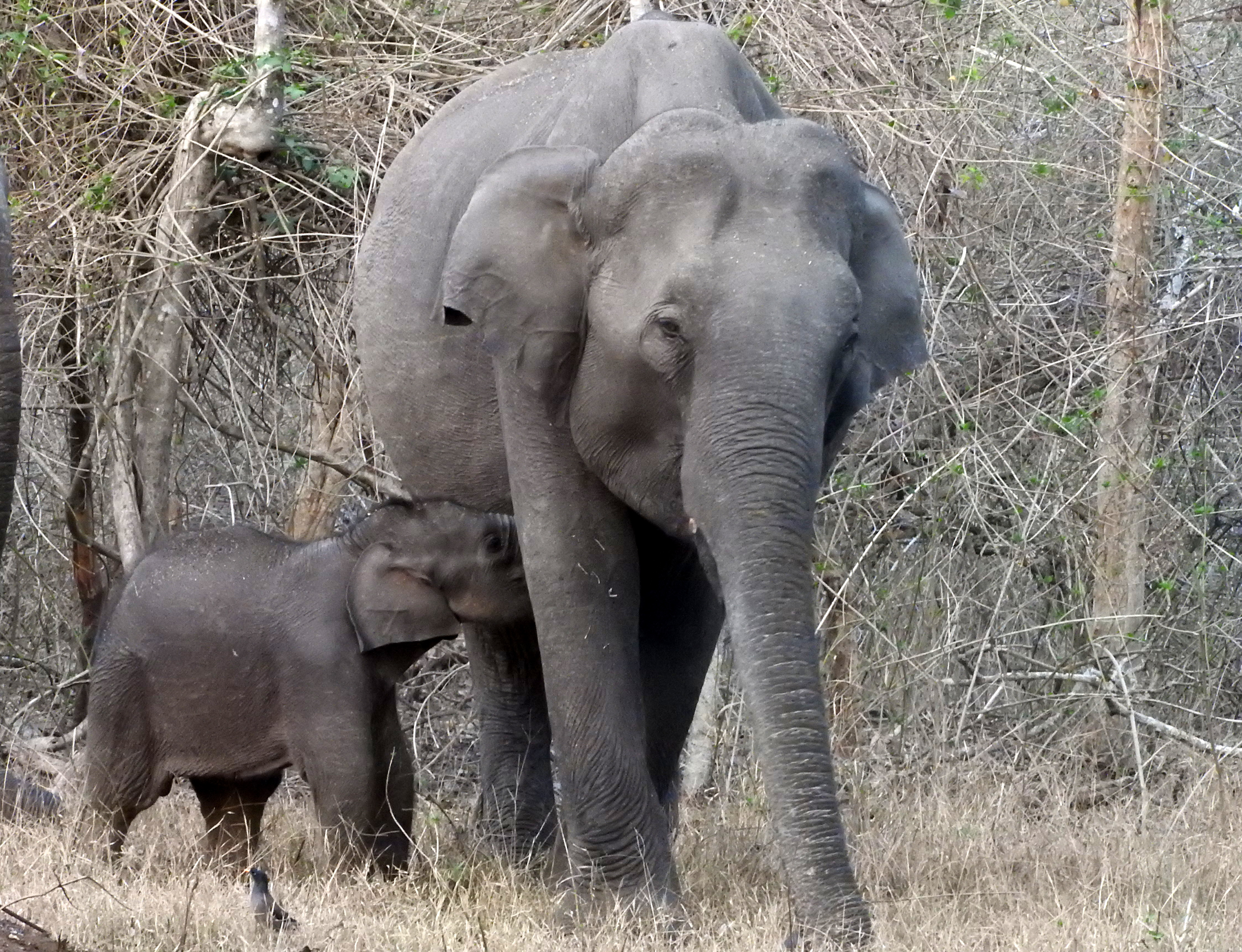 I took this photo from Nagarhole Tiger Reserve, Karnataka, India